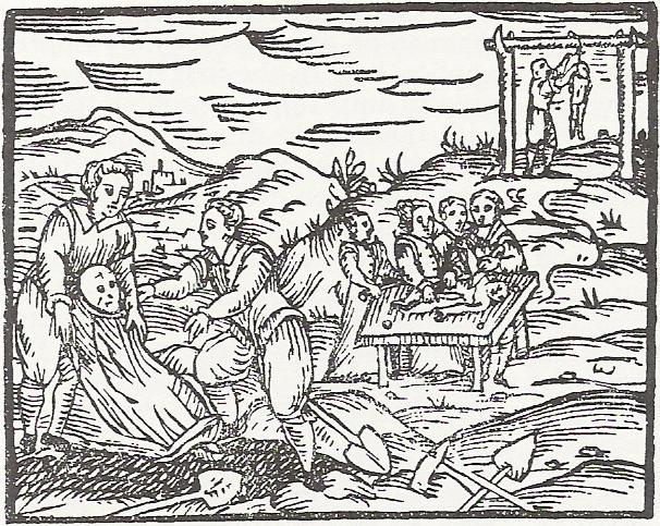 Wood Engraving 22 from the Compendium Maleficarum